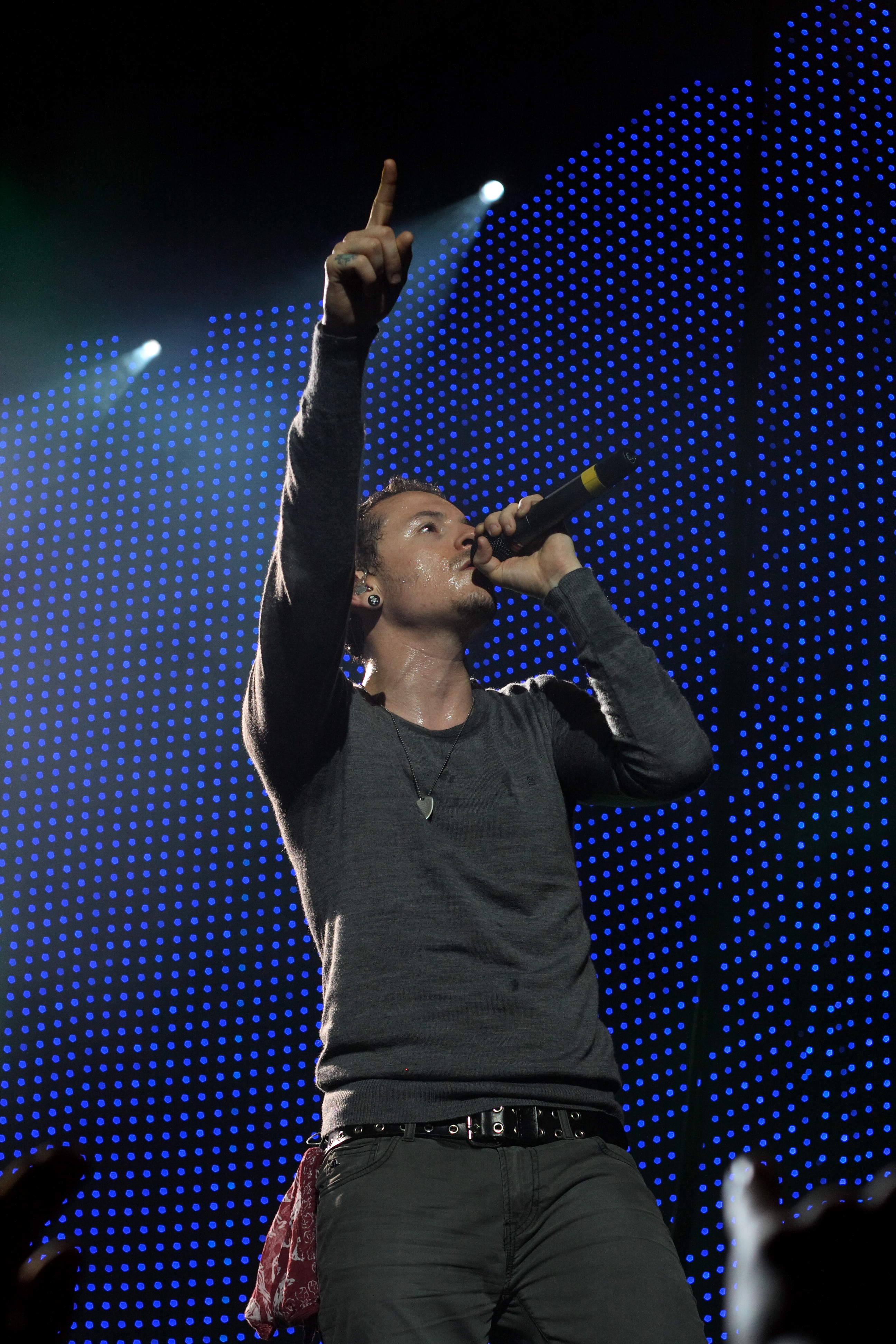 Chester Bennington of Linkin Park at The Globe Arena in Stockholm